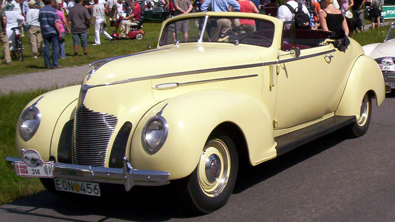 Hudson Country Club Six 93 Convertible Coupe 1939